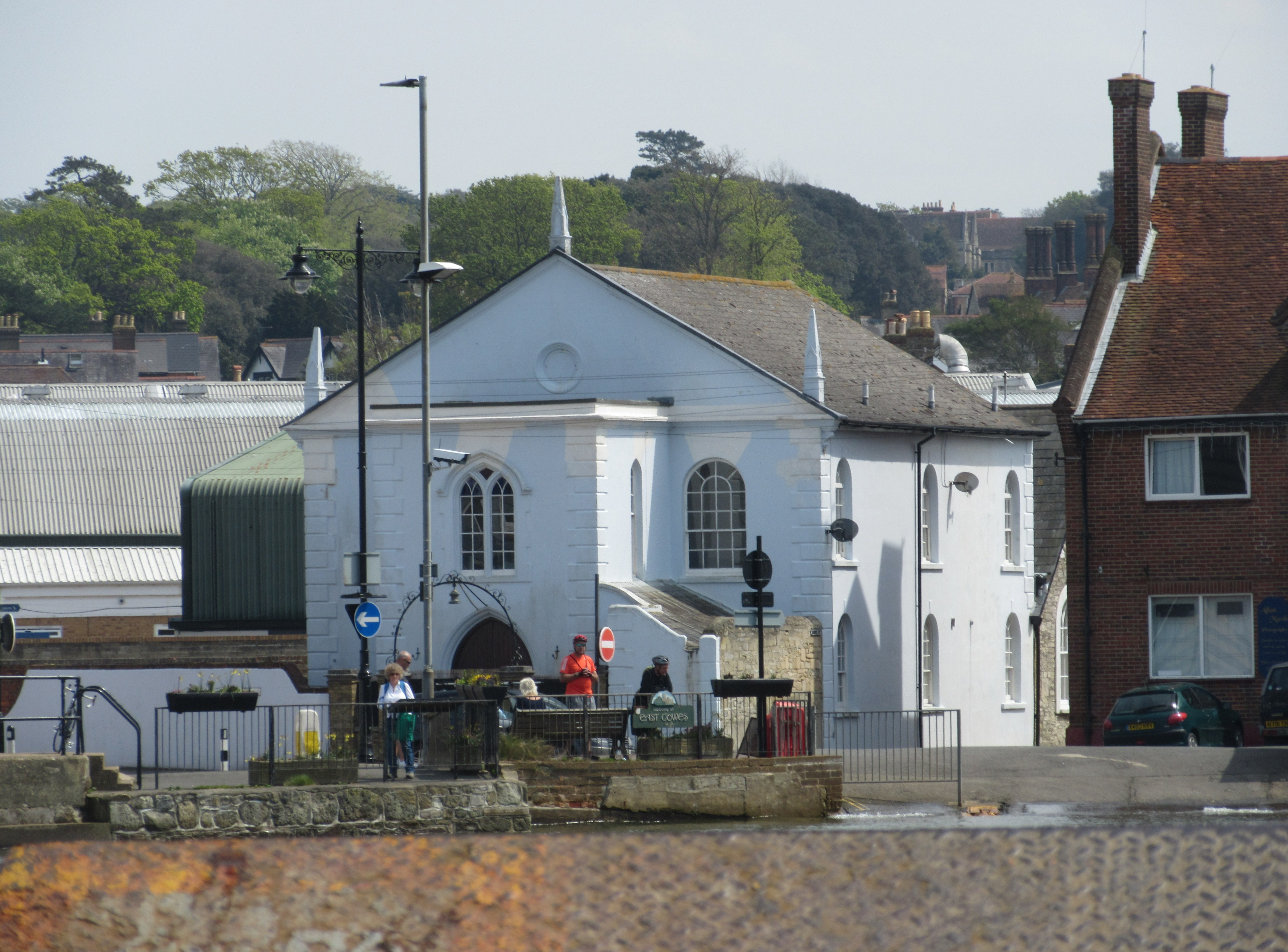 Former East Cowes Congregational Church, Ferry Road, East Cowes, Isle of Wight, England. Built in 1829 as a Congregational chapel; deregistered in 1984 and now used as holiday cottages.